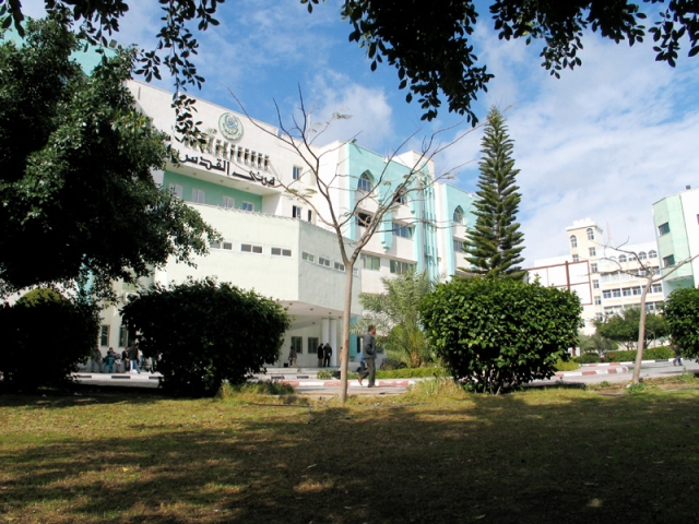 Al-quds building at the Islamic University of Gaza (the main building of the school of Engineering)